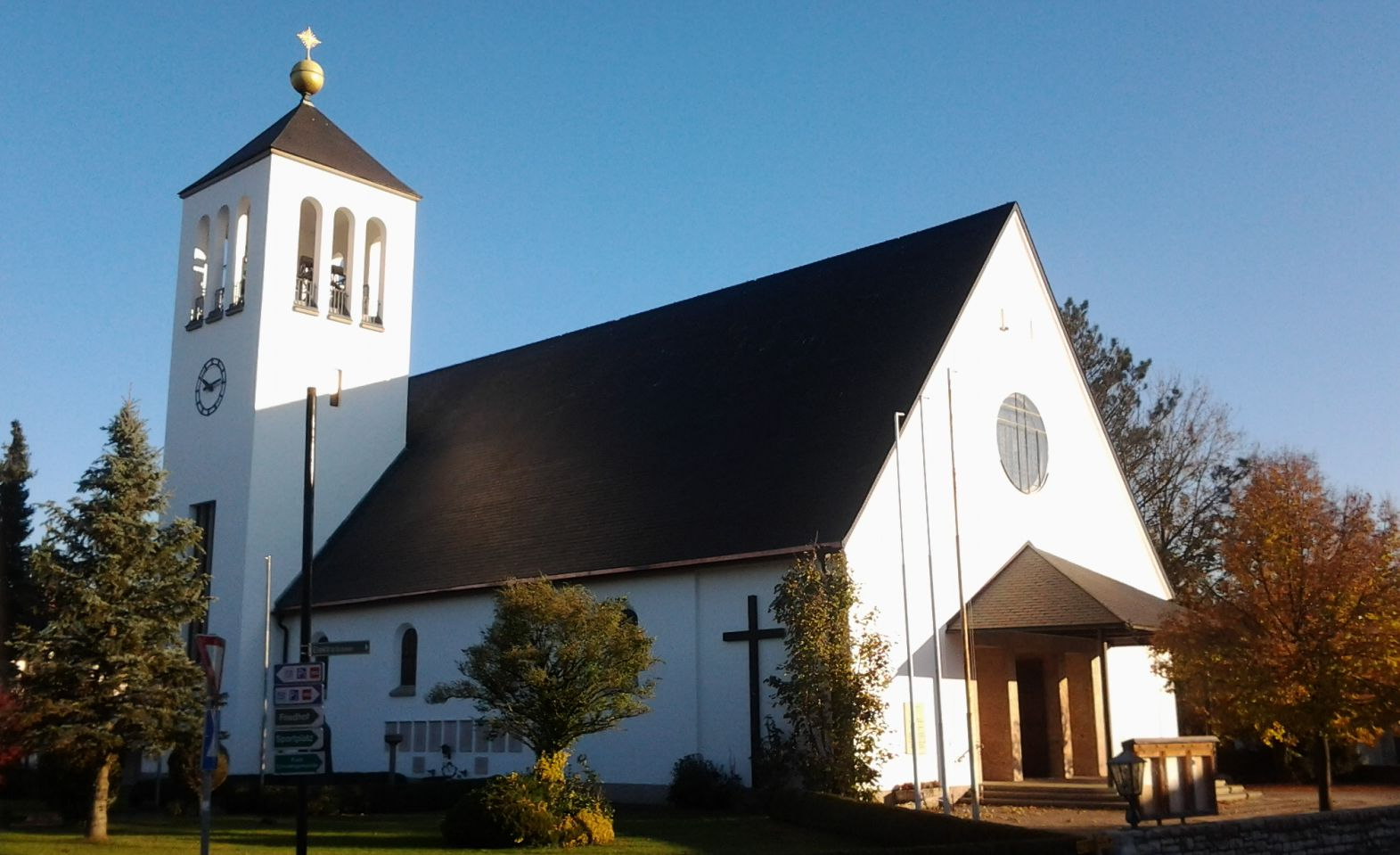 roman-catholic church of Bürmoos, state of Salzburg, Austria